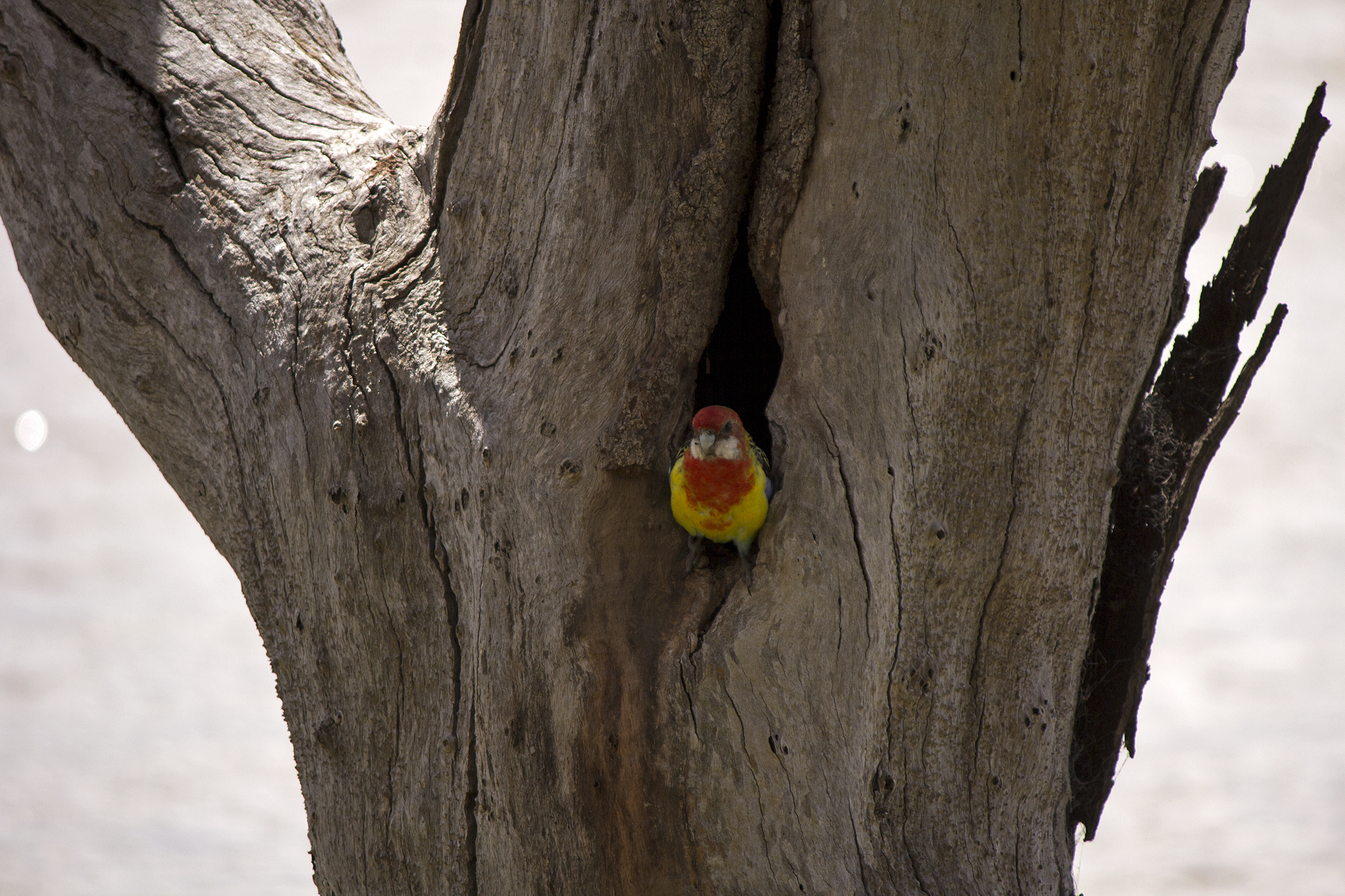 Female Eastern Rosella (Platycercus eximius) in a tree hollow at Lake Albert in Wagga Wagga.